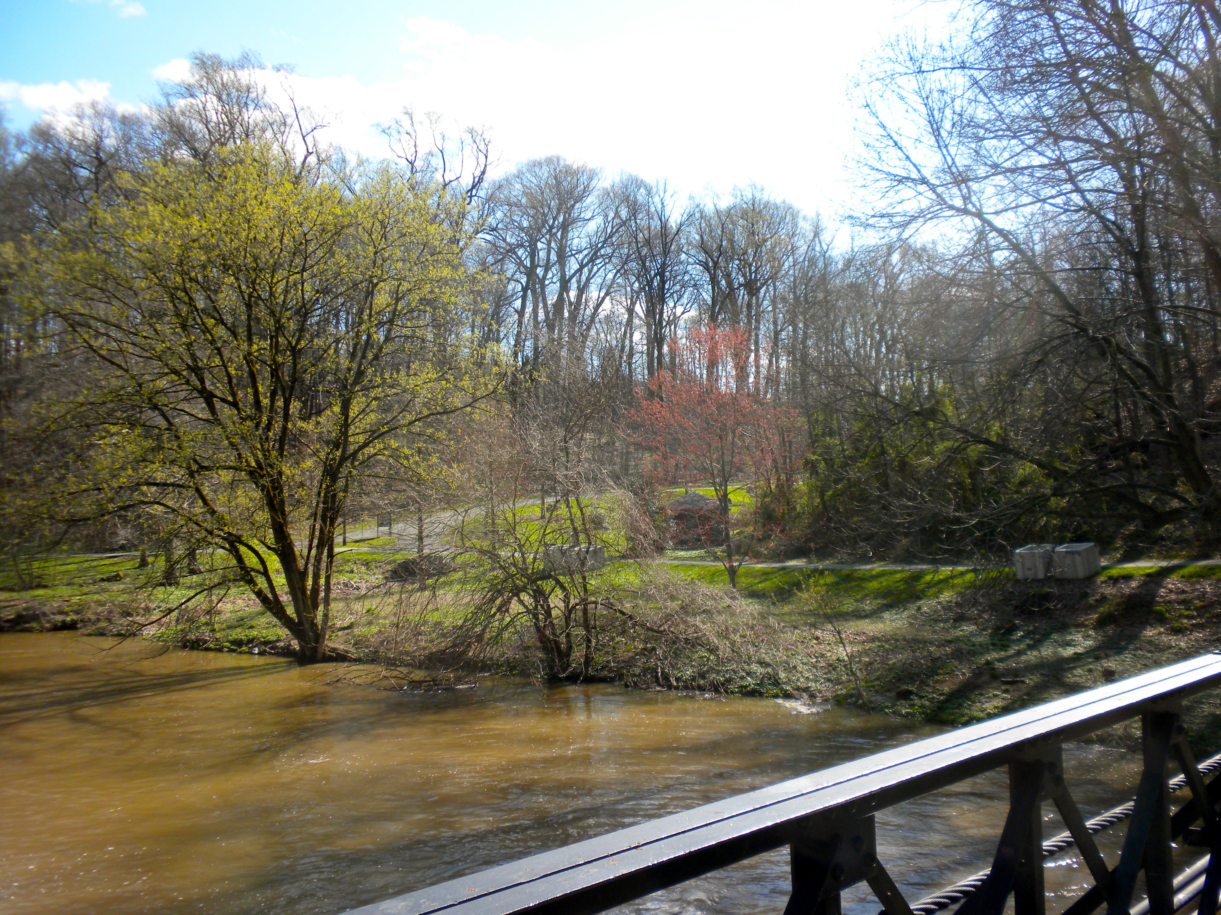 View from the suspension bridge near the Augustine Cut-off in Brandywine Park, Wilmington, Delaware, looking south (right side of creek is "west bank"). This is within 100 yards of the NRHP site of "Continental Army Encampment Site" listed since December 18, 1973. NRHP gives address as Lovering Ave. near Broom St., which would be on top of the "canyon rim" and coords (below) which are on the steep hillside. I'd think they would camp on the flat floodplain (there was no flood that day) below the hillside. The floodplain is fairly narrow that far south, so I'd guess the campsite to be a bit further north - that is about here. Of course the terrain might have changed since then, but it's within 100 yards of here!